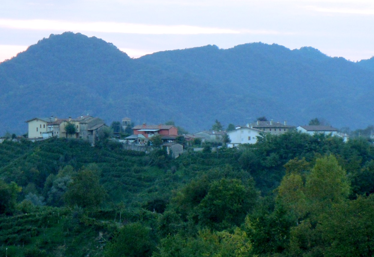 Farrò (Follina)